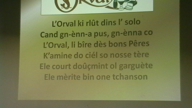 Walon: tecse d' ene tchanson da Joël Thiry so l' Ôrvå